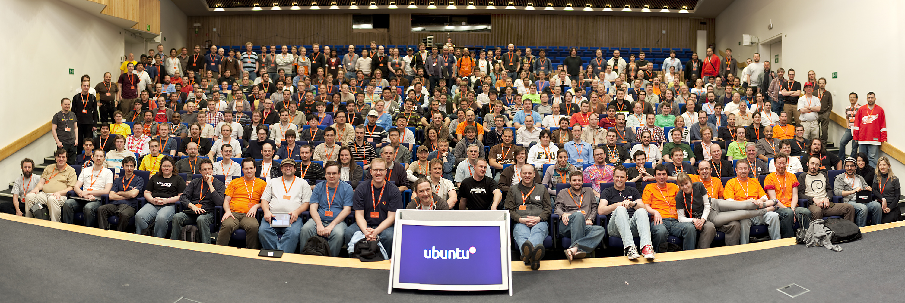 First version of the group photo in Belgium